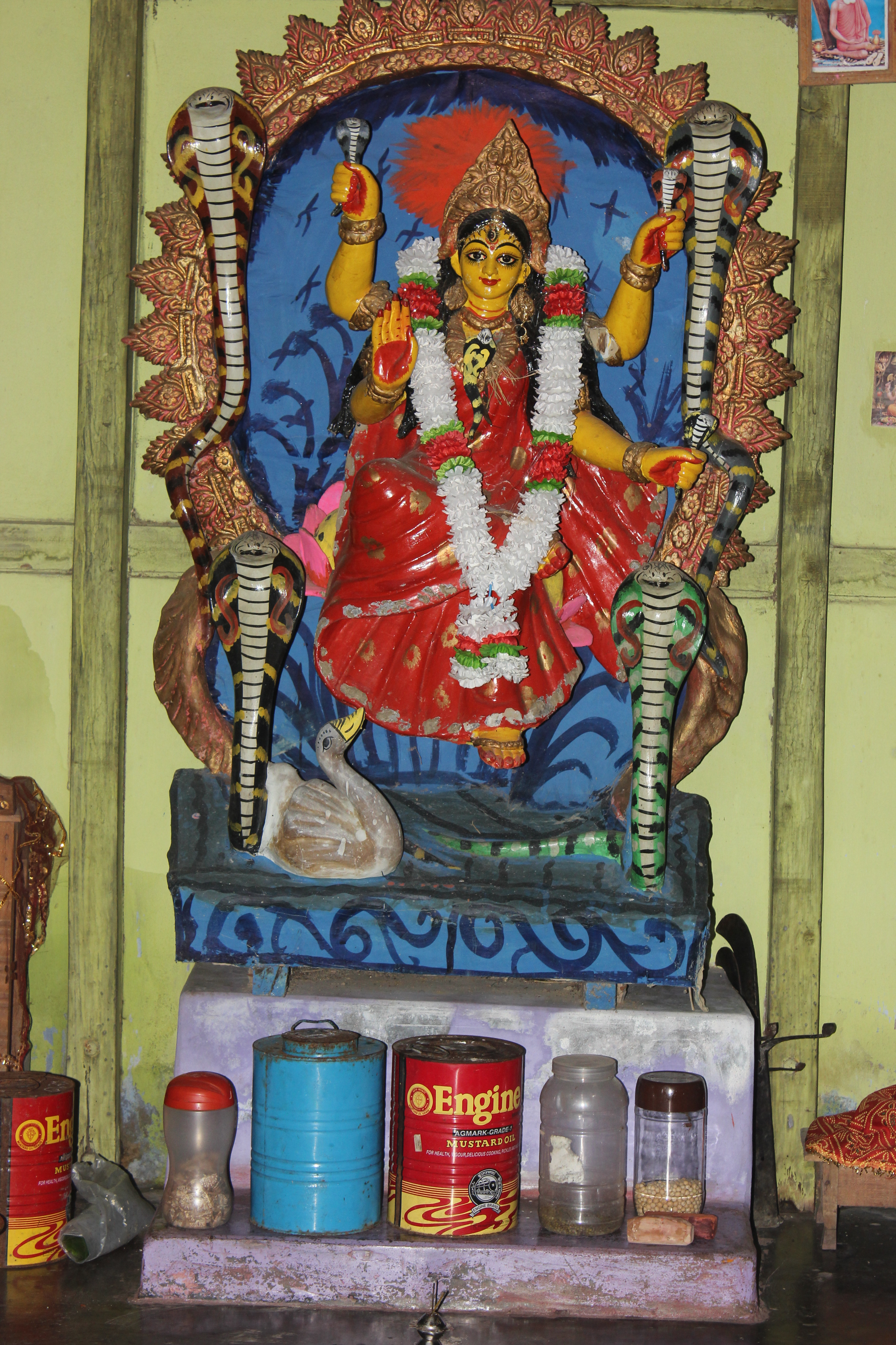 Goddess Manasha. The Hindu Goddess of serpents. Location: Silchar, Assam.